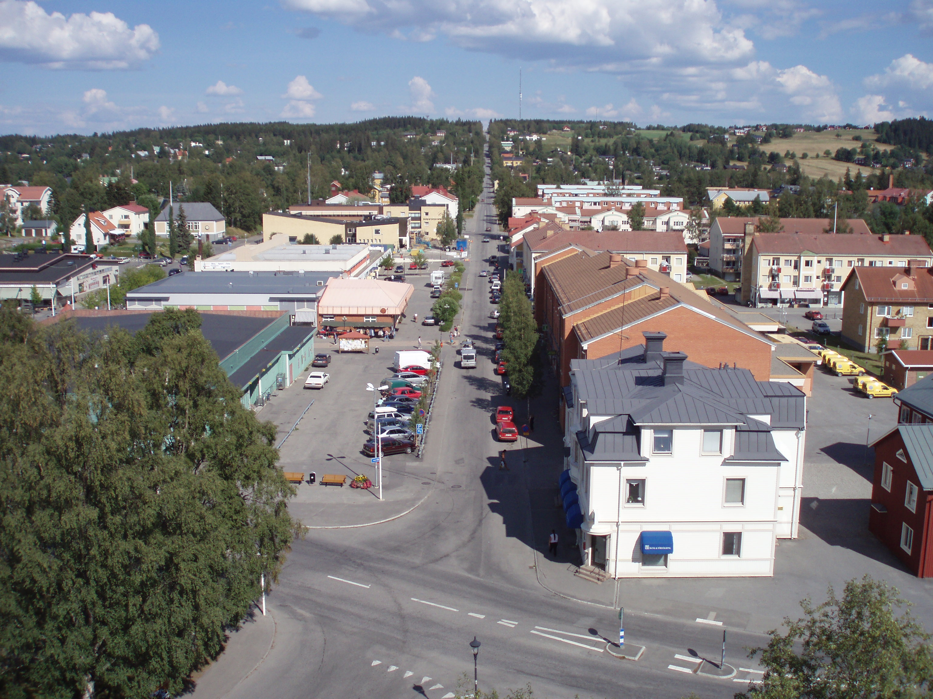 Strömsund, Sweden, Storgatan. Photo taken in aug. 2006 by me - User:Cucumber